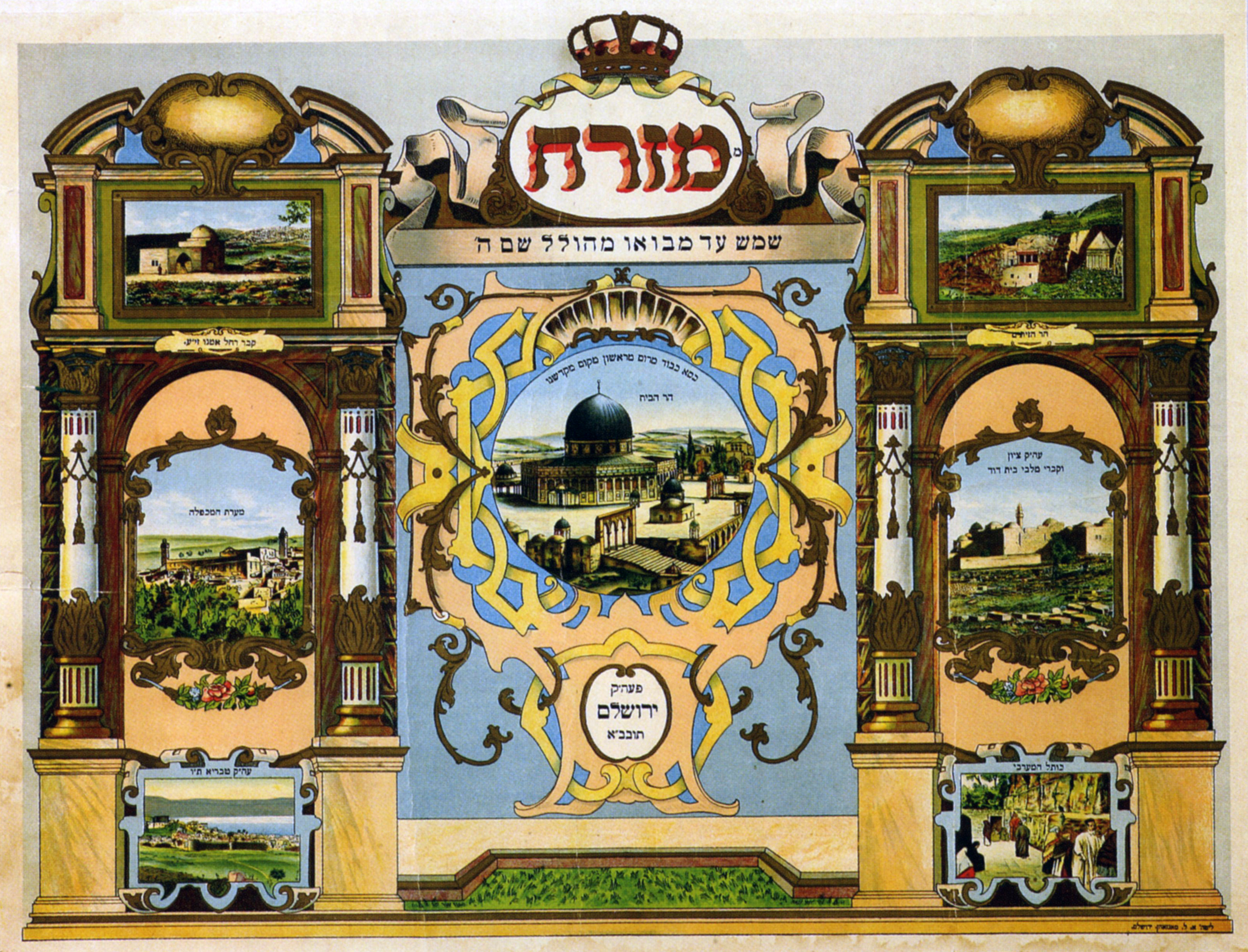 Avraham Leib Monsohn Active in Palestine, 1870-1948 Mizrah Plaque 1920s Lithography 45 x 59 cm